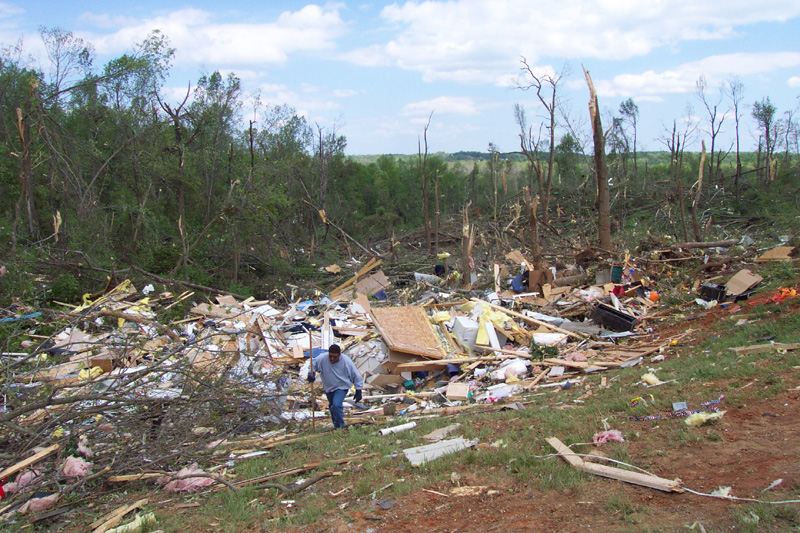 Damage from the La Plata Maryland tornado